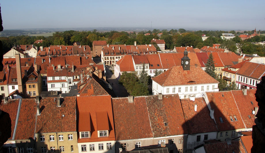 Reszel - view from tower